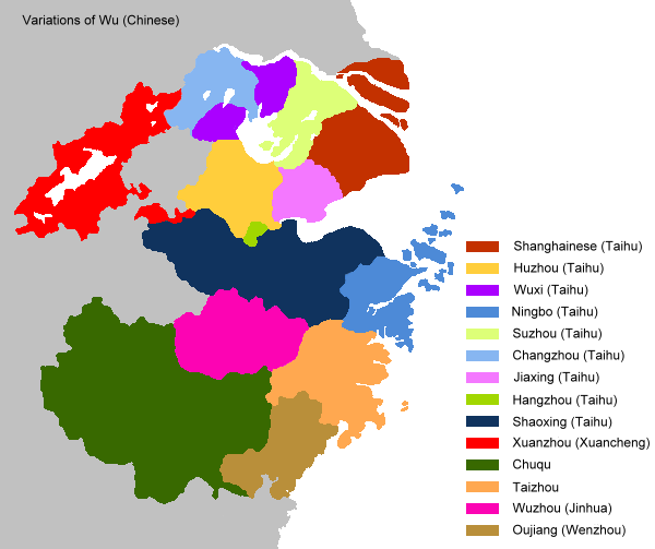 Map showing distribution and extent of Wu dialects.